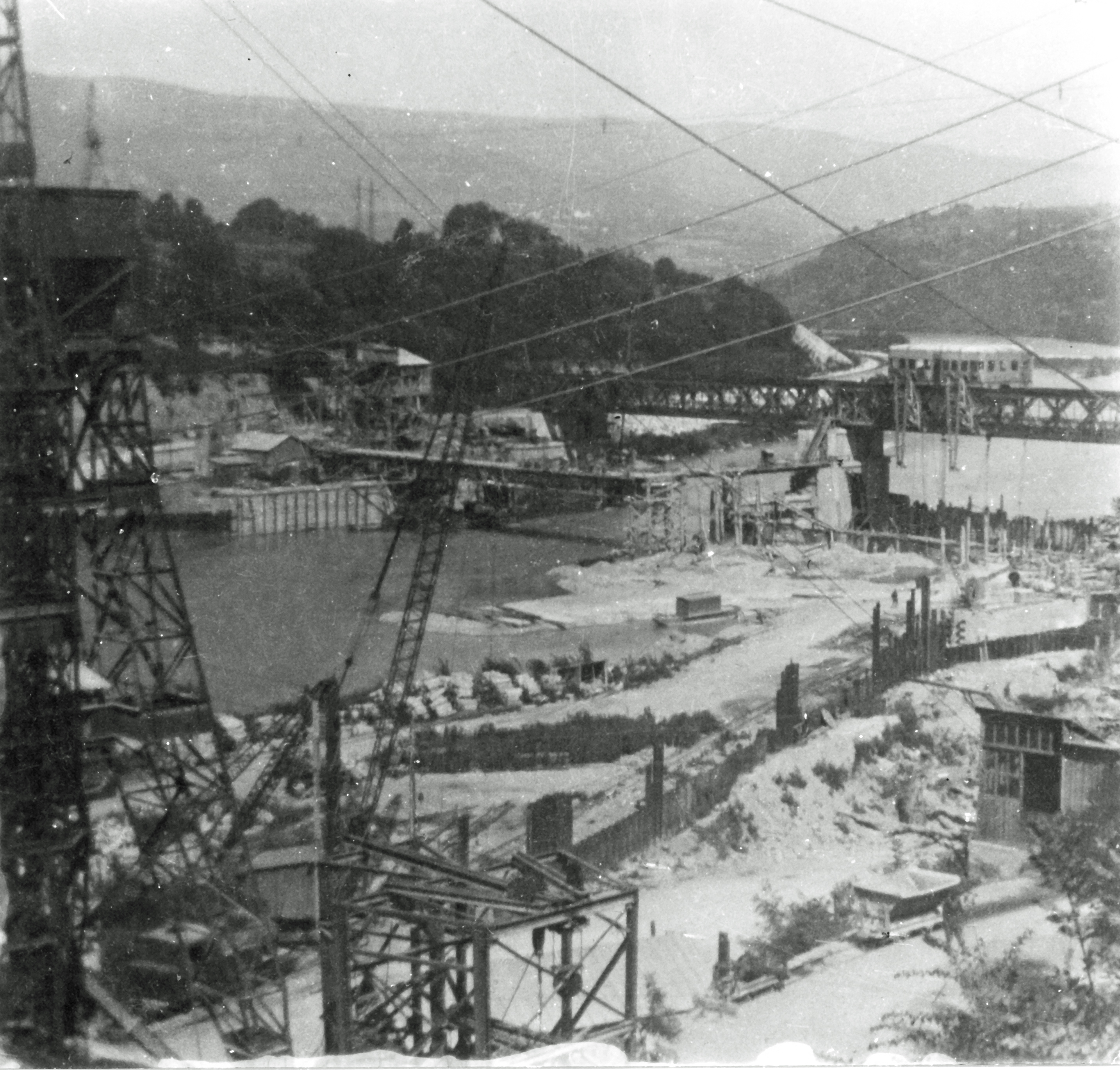 The Seyssel dam site